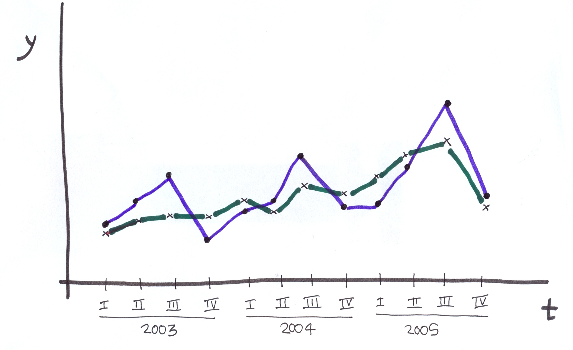 time series and its seasonal adjustment